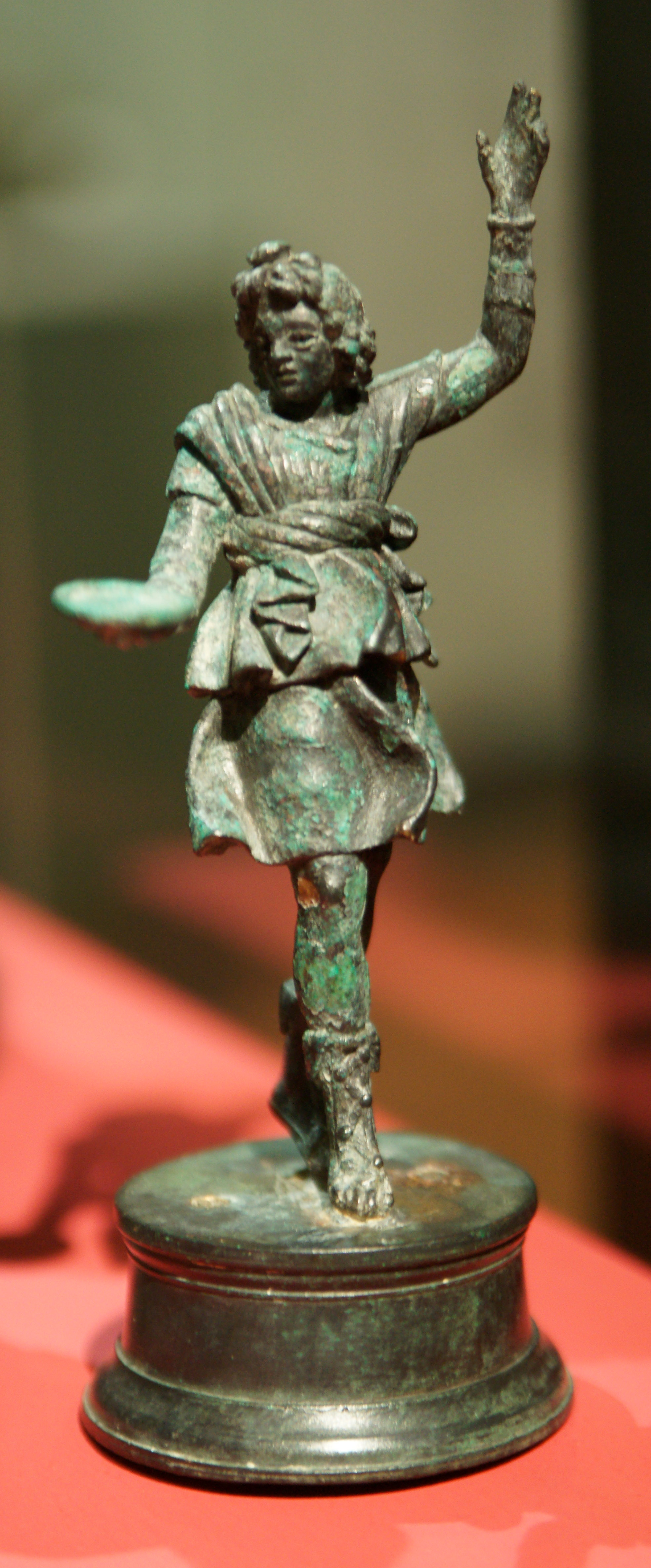 A lar (household god) from the Muri statuette group, a noted collection of bronze figures of Gallo-Roman found in Muri bei Bern, Switzerland, 1832.